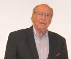 taken at Art@3 program on February 5, 2008 at the Ponte Vedra Cultural Center